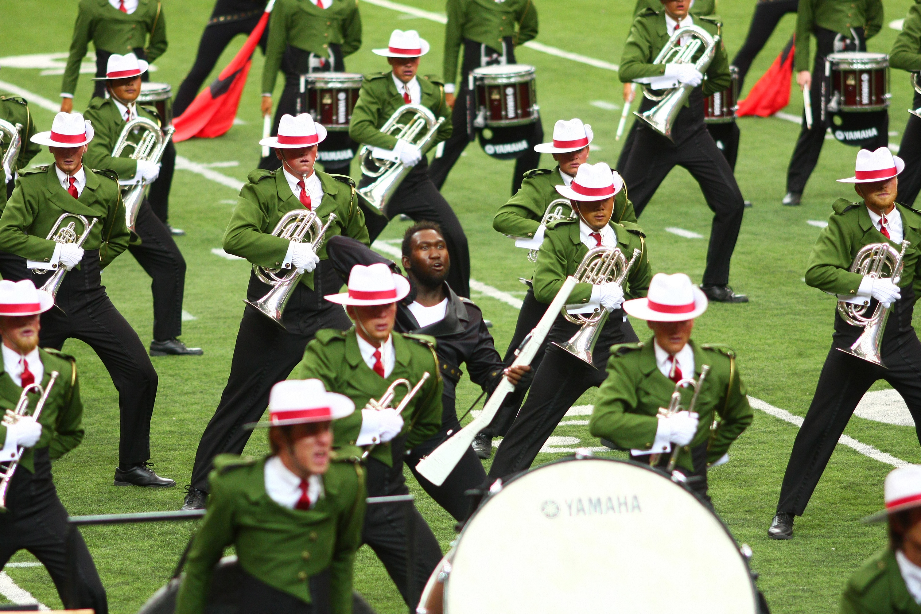 The Madison Scouts, 7/26/08.